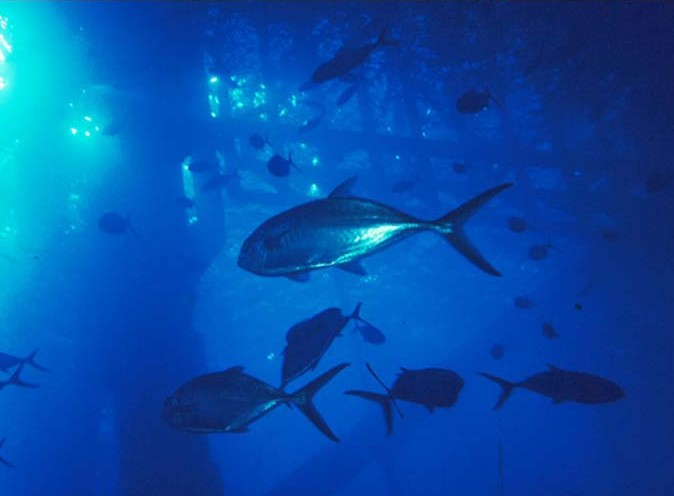 Photo of blue runner, Caranx crysos, under an oil platform in the Gulf of Mexico. Image taken from front cover of a report published by the US Dept of Interior. Falls under Public Domain